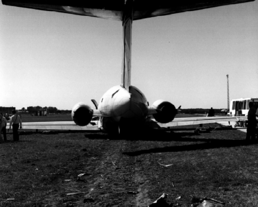 Continental Airlines Flight 1943（N10556） after belly landing